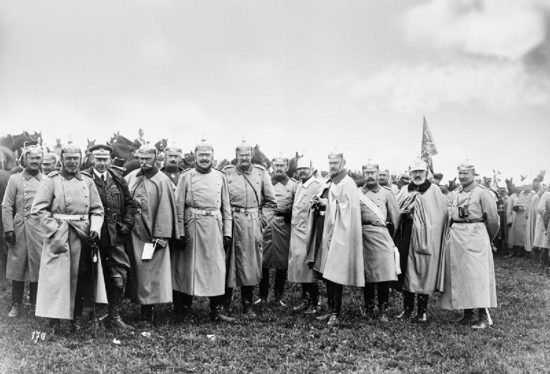 The Imperial German Army 1890 - 1913 The Earl of Lonsdale with the Kaiser's adjutants and aides de camp during the manoeuvres of 1905. Left to right: Rittmeister Freiherr von Holzing General Inspector of Infantry Oskar von Lindequist Lord Lonsdale General Adjutant Hans von Plessen Aide de Camp Eberhard Graf von Schmettow General Adjutant Dietrich Graf von Hülsen-Haeseler (Chief of the Kaiser's Military Cabinet) General Adjutant Friedrich von Scholl Aide de Camp Major Friedrich von Friedeburg Chief Equerry Freiherr von Reischach Aide de Camp General Wilhelm Graf von Hohenau Aide de Camp Oberstleutnant Oskar von Chelius Aide de Camp von Neumann-Cosel Major Graf Tschirscky-Renard Aide de Camp Alfred Graf von Soden